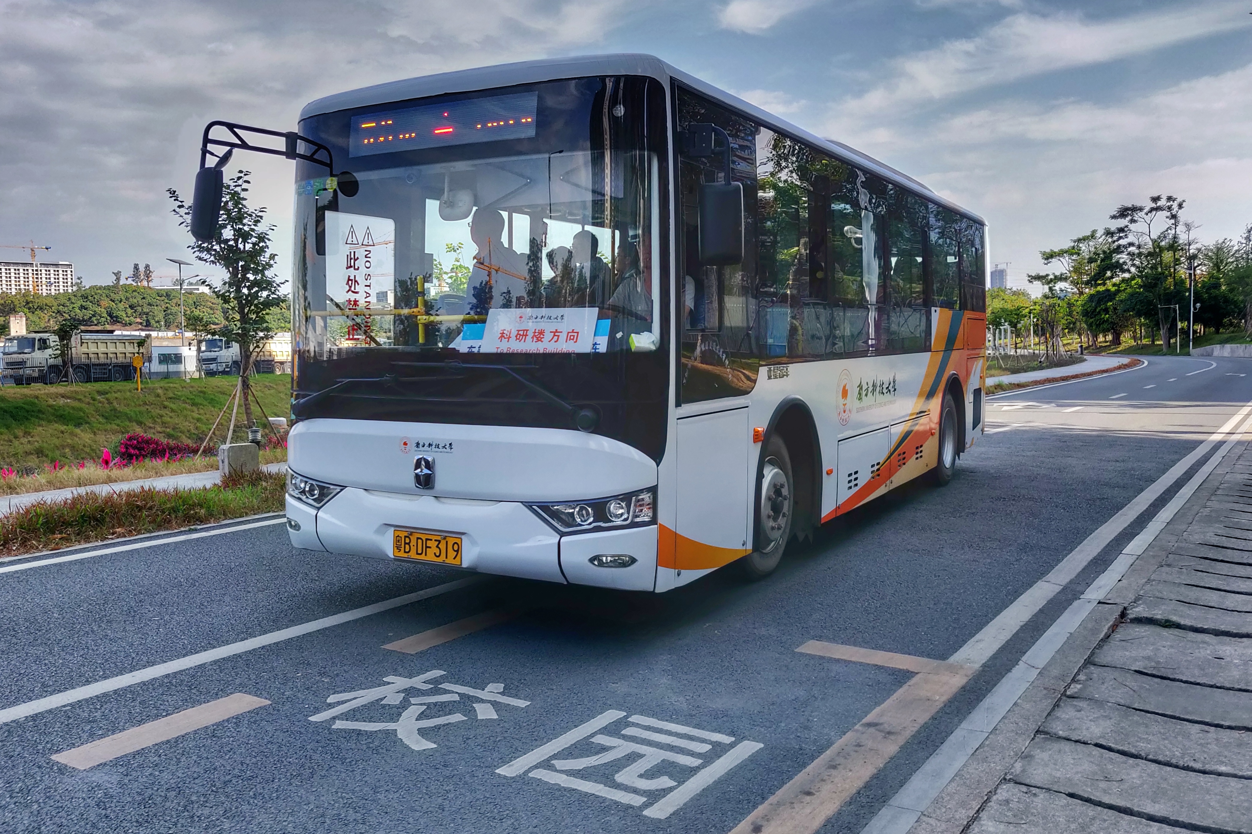 Shuttle Bus in SusTech